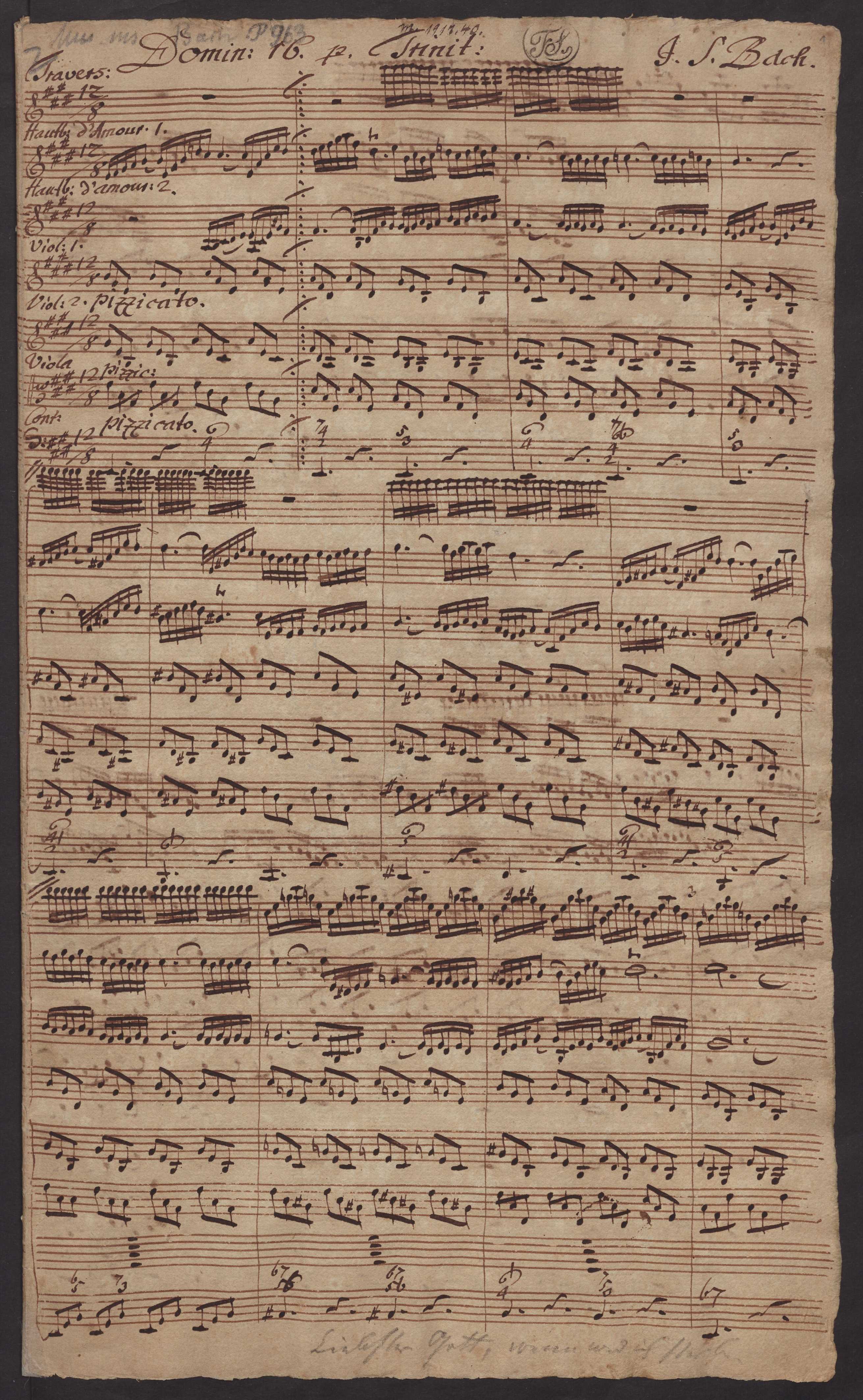 Bach's opening chorale of BWV 8, copied by Carl Friedrich Barth, chorister at the Thomasschule